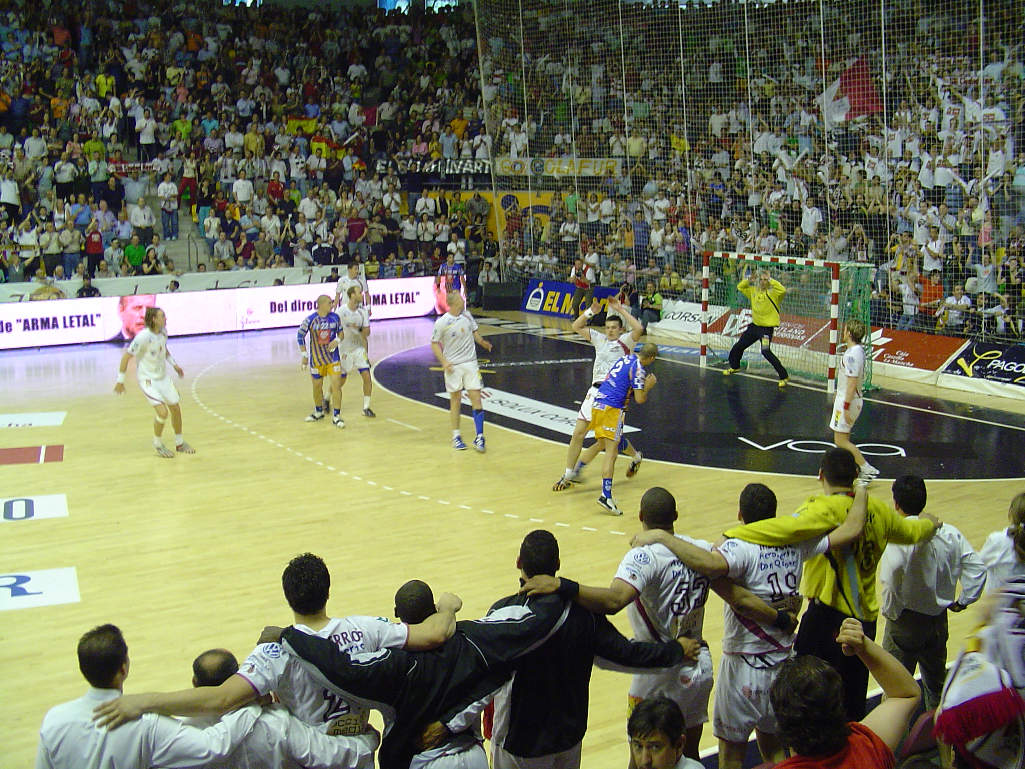 Finale of the EHF champions League 2005-2006 in the Quijote Arena